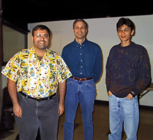 Tony, John and Mark at their Illumina office in the Summer of 1998.